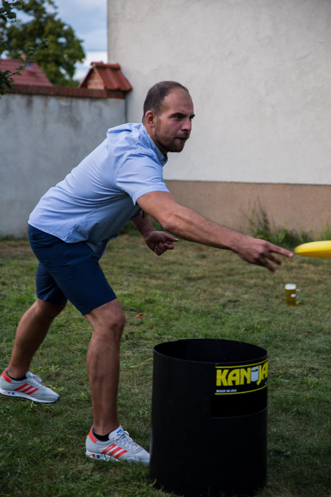 A KanJam game.